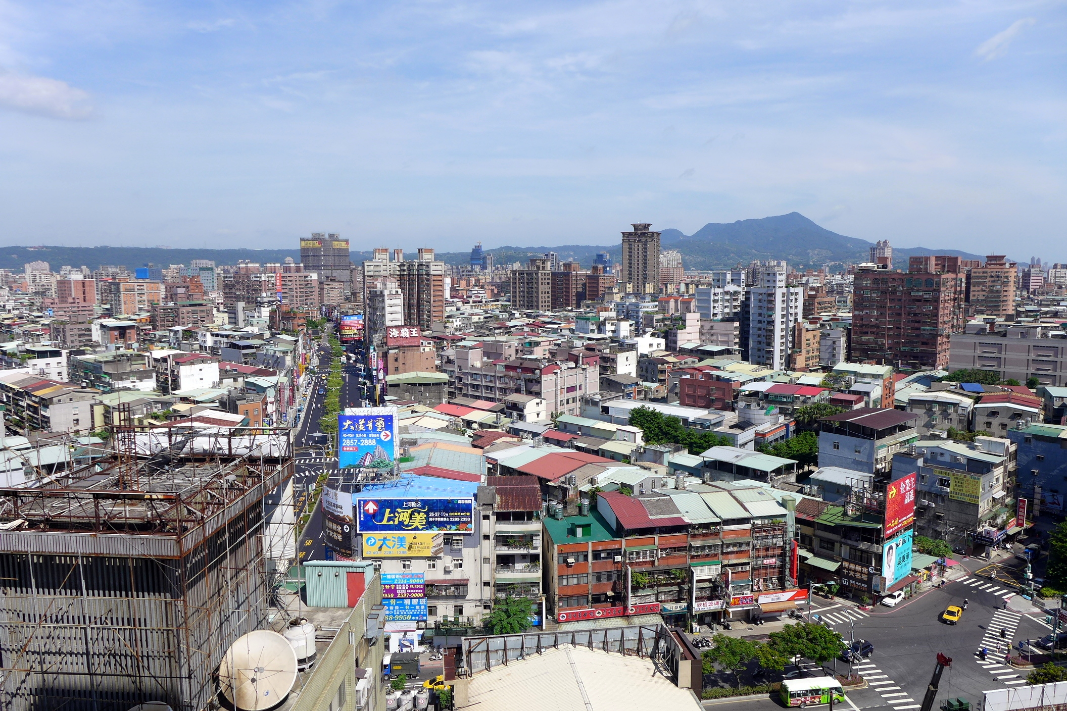 Luzhou District Buildings